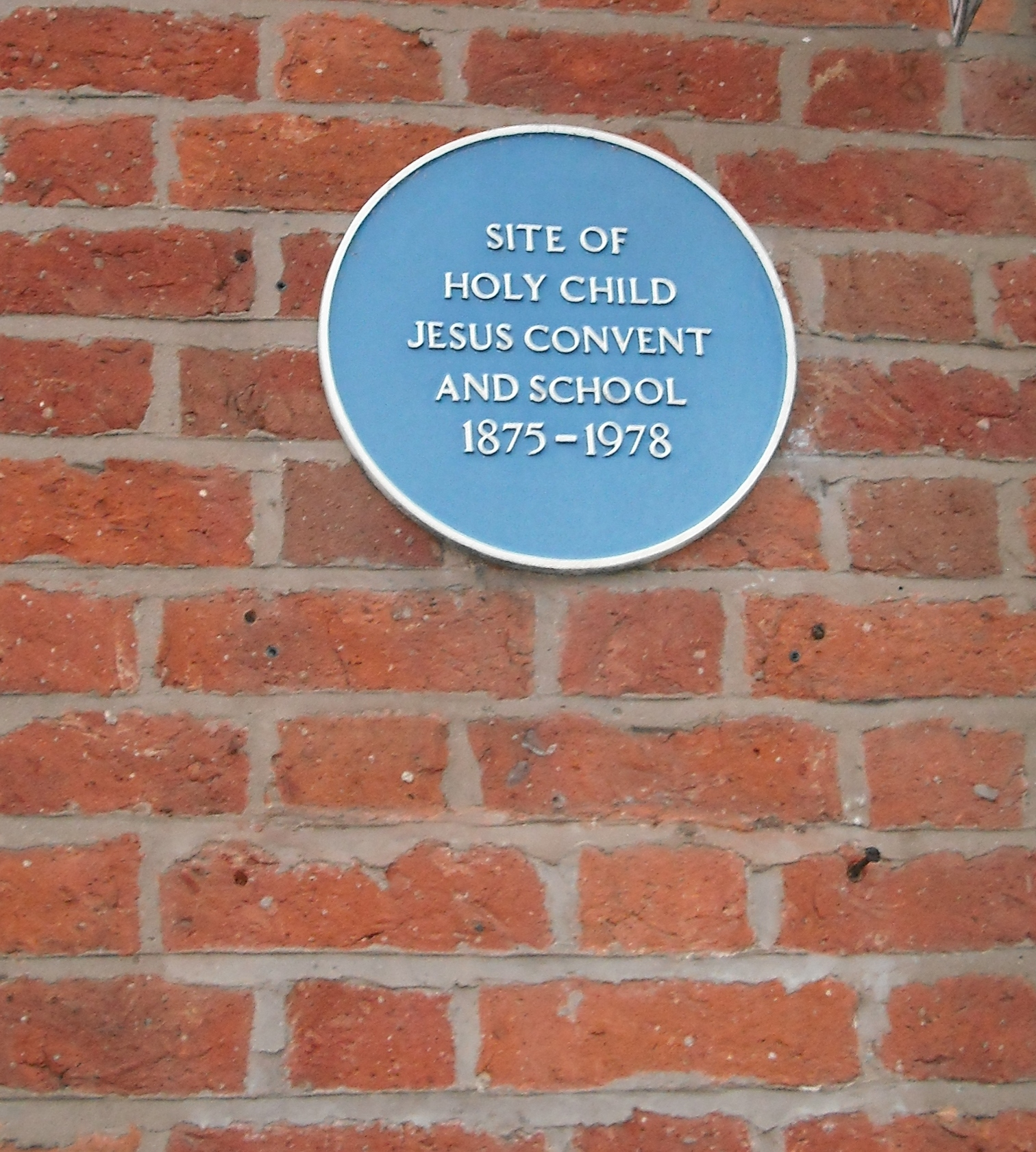 Plaque for the Holy Child Jesus Convent, Winckley Sqaure, Preston